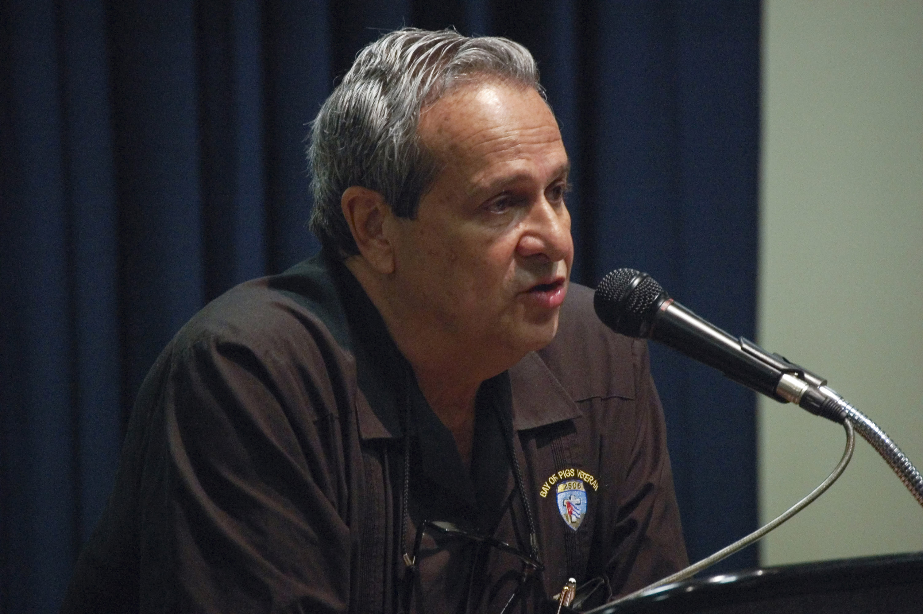 Former CIA operative Félix Rodríguez delivering an address at Christopher Columbus High School in Miami, Florida, September 8, 2006 Photo taken by me.